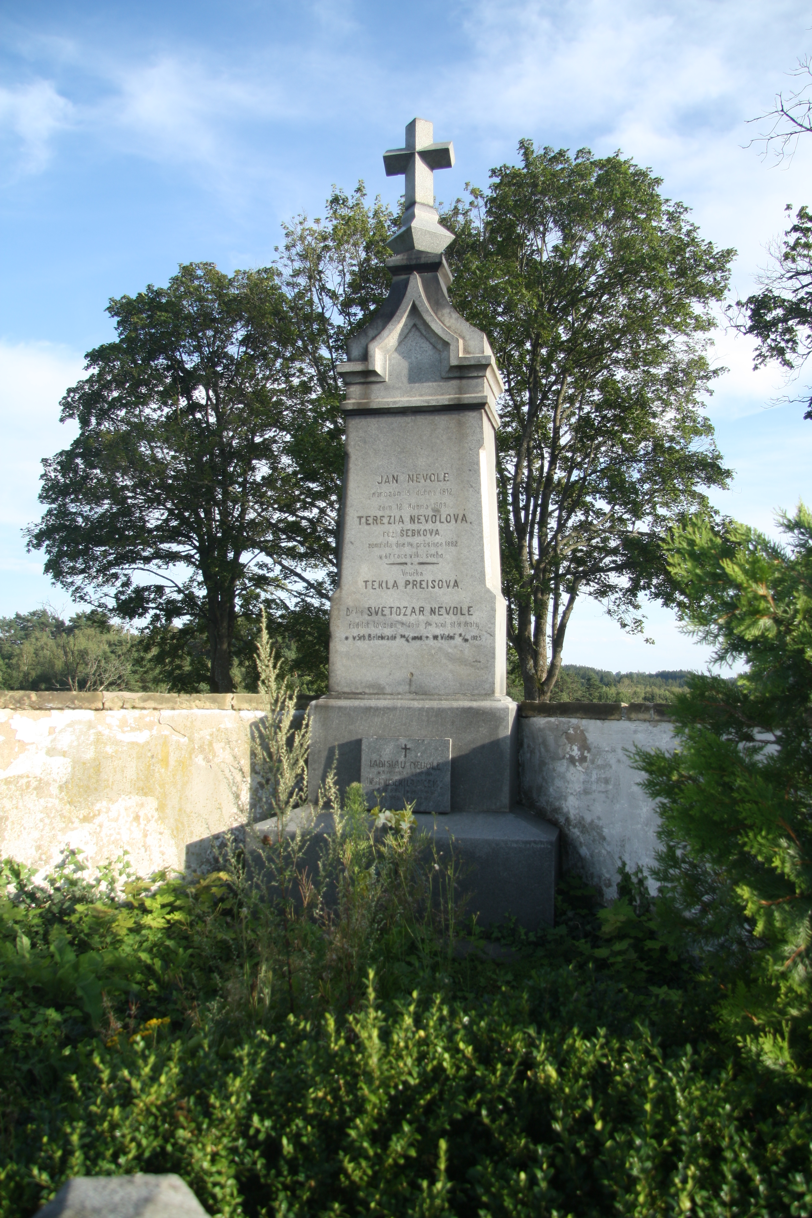 Grave of Nevola family at cemetery in Trhová Kamenice, Chrudim District.